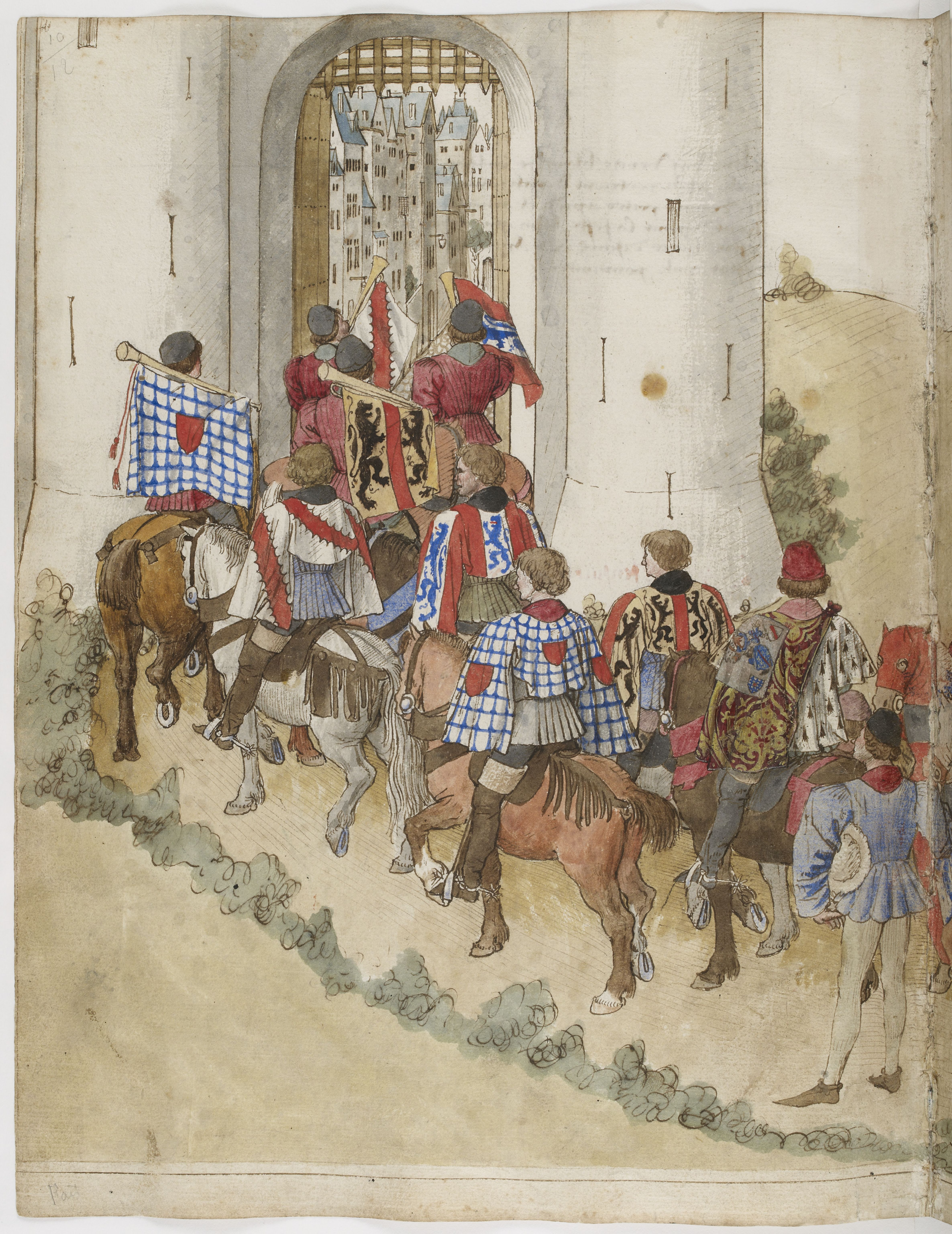 Miniature from book of tournaments